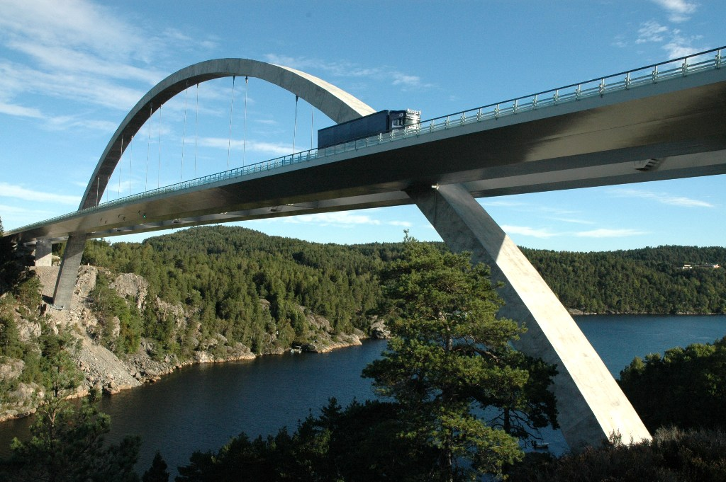 Bridge over Svinesund betwwen Norway and Sweden. Photo is from the Swedish side.